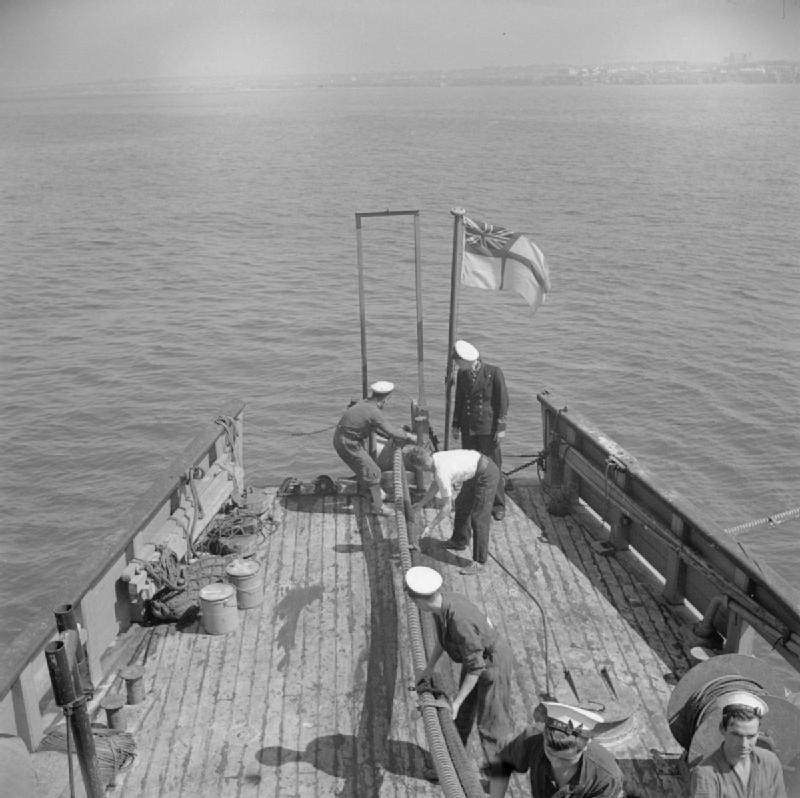 The Royal Navy during the Second World War A view from the bridge deck on board HM Motor Minesweeper 88 on to the stern as the sweep is wound in during minesweeping operations off Anzio, Italy.